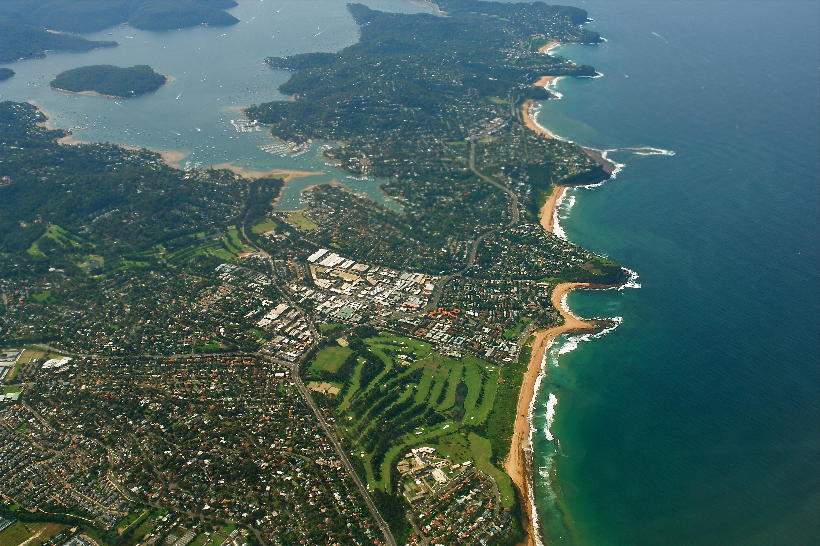 Aerial view of Pittwater and Sydney northern beaches (Scotland Island in top left corner)